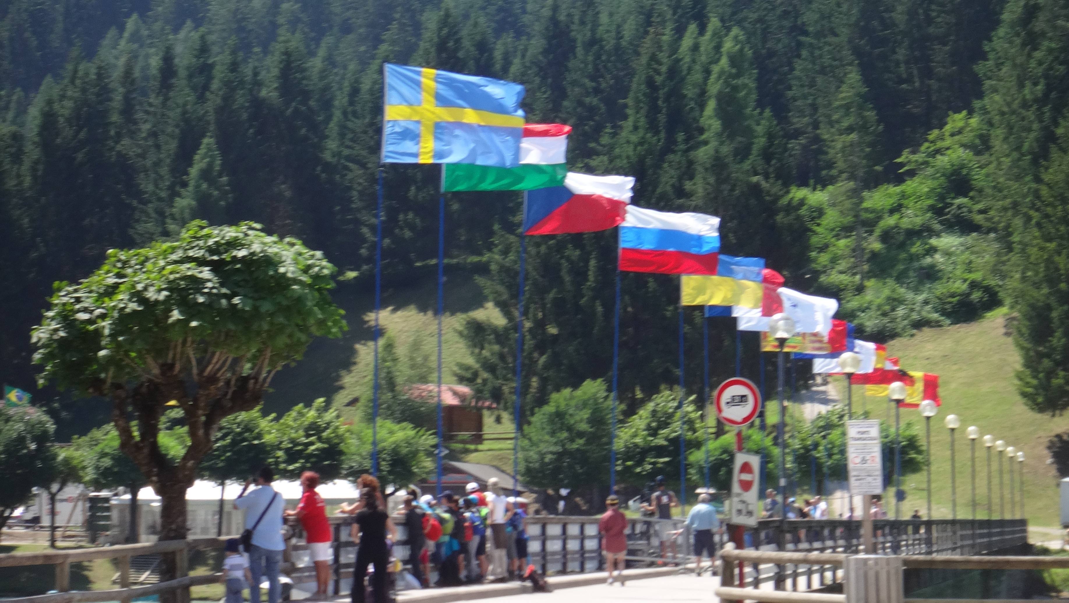 (ECA European Dragon Boat Racing Championships 2015 in Auronzo di Cadore, Italy. Flags of the competition area.)